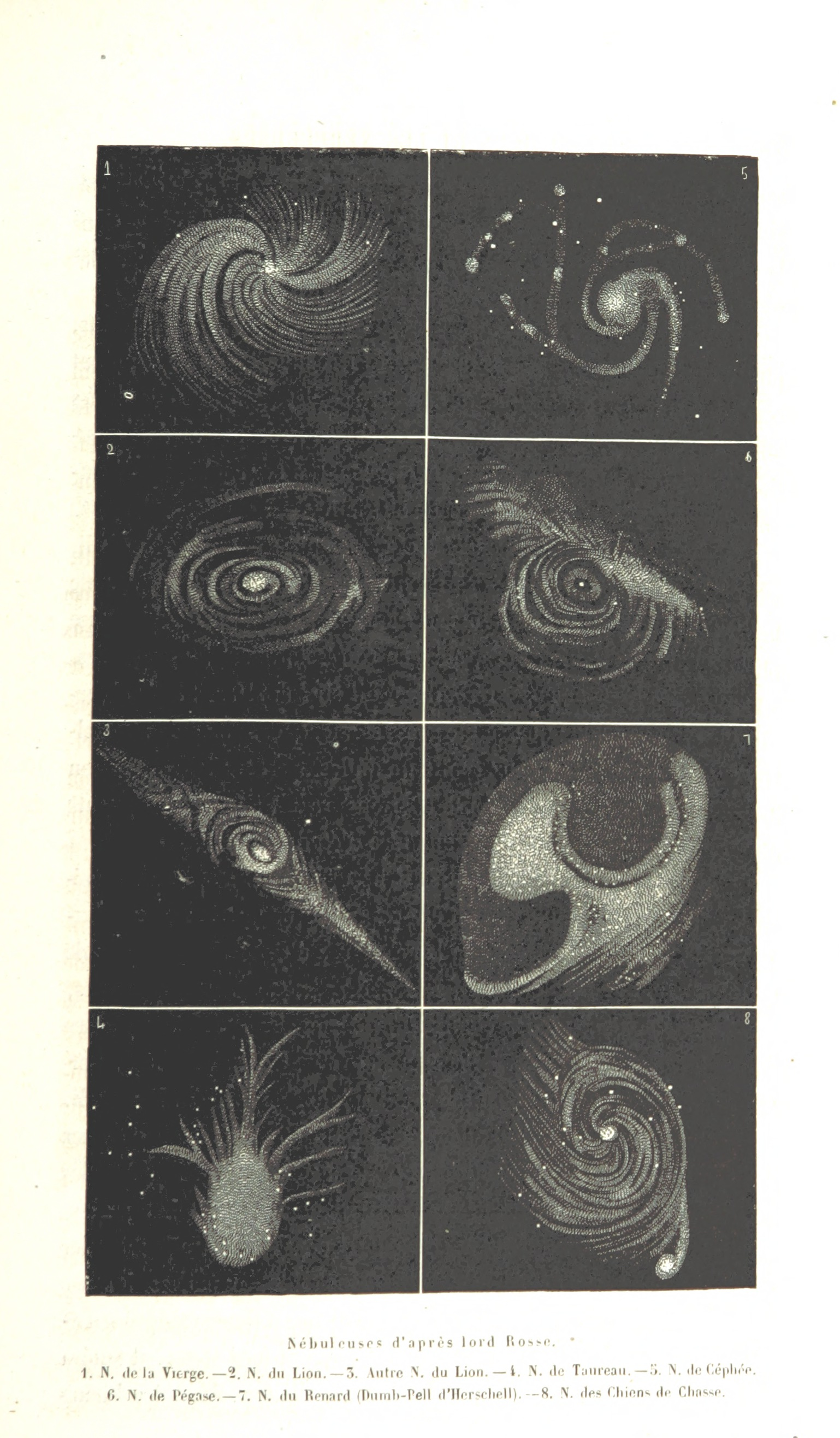 Image taken from: Title: "L'Espace céleste et la nature tropicale, description physique de l'univers ... préface de M. Babinet, dessins de Yan' Dargent" Author: Liais, Emmanuel Contributor: BABINET, Jacques. Contributor: DARGENT, Jean Édouard - calling himself Yan' Dargent Shelfmark: "British Library HMNTS 10003.d.10." Page: 645 Place of Publishing: Paris Date of Publishing: 1866 Issuance: monographic Identifier: 002161070 Explore: Find this item in the British Library catalogue, 'Explore'. Download the PDF for this book (volume: 0) Image found on book scan 645 (NB not necessarily a page number) Download the OCR-derived text for this volume: (plain text) or (json) Click here to see all the illustrations in this book and click here to browse other illustrations published in books in the same year. Order a higher quality version from here.